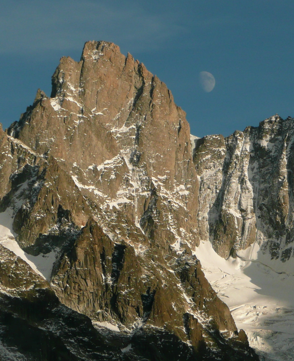 Aiguille de Leschaux (French/Italian border)